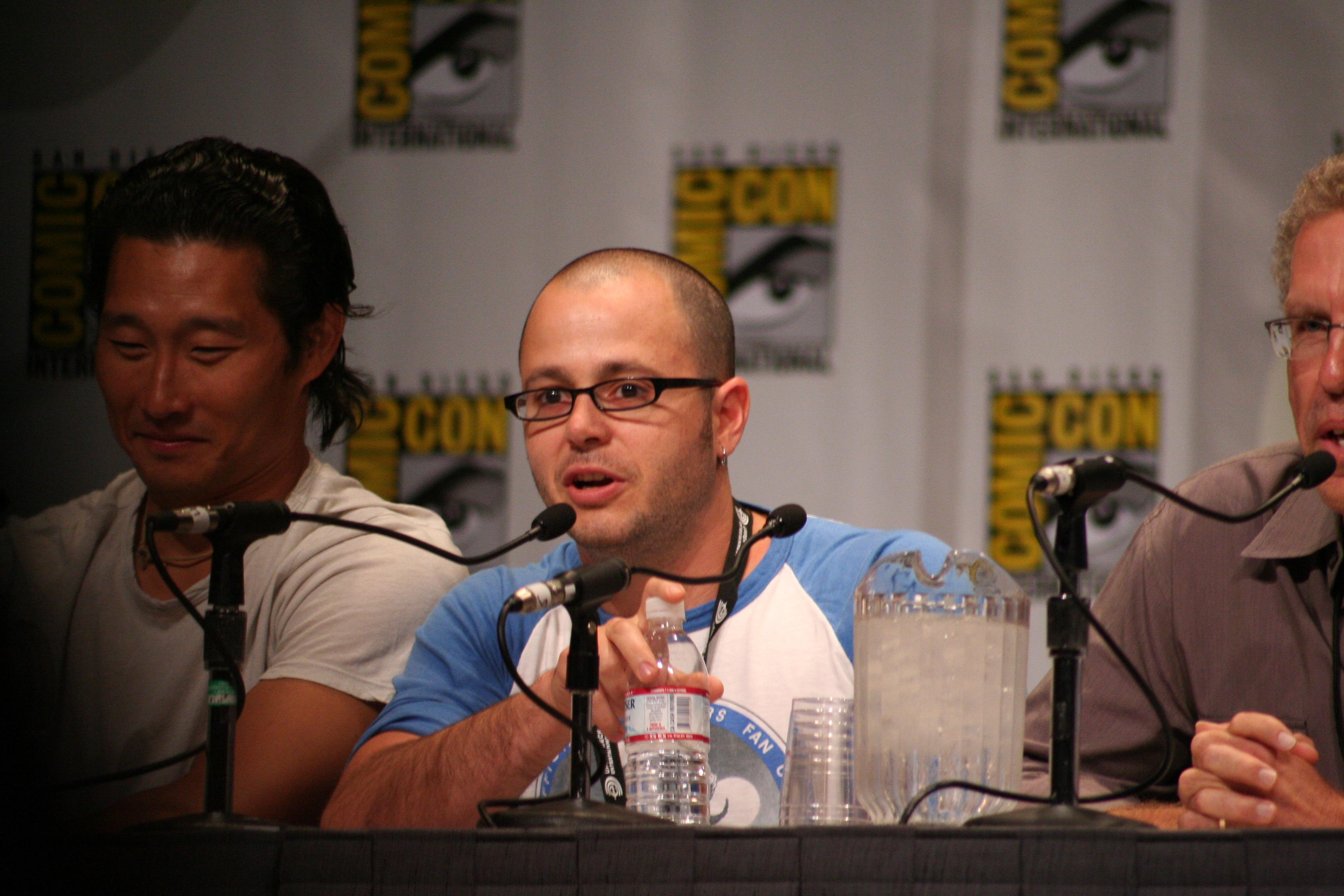 Damon Lindelof, Producer and author of the TV series "Lost"